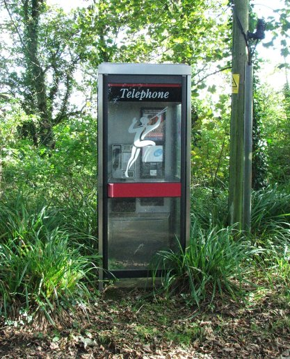 Phonebox Rather incongruous in its rustic setting where one might have expected a traditional K6 box, this modern kiosk serves the small hamlet of Tregavarah, although its services can't be much called upon; on opening the door I found the inside to be less than pristine, & teeming with insect life!